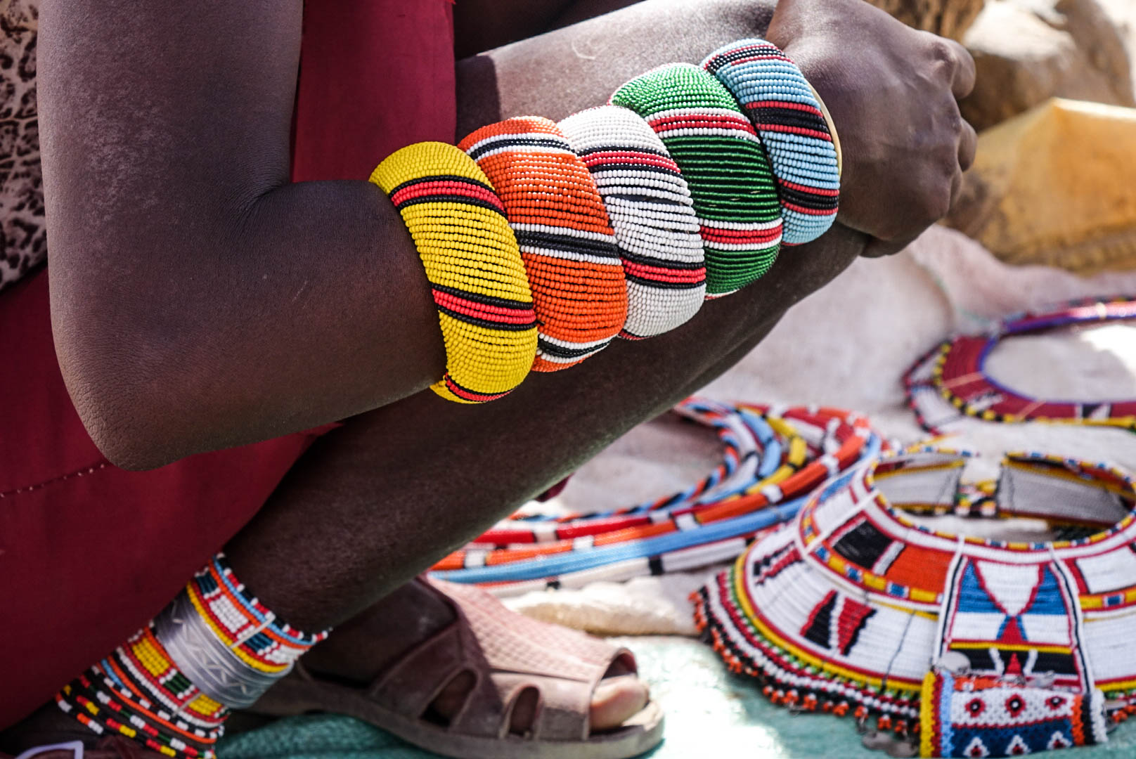 Most days, the women of Unity in the Samburu region of Kenya can be found underneath a shaded tree working on their beadwork. This is an image of "African people at work" from Kenya